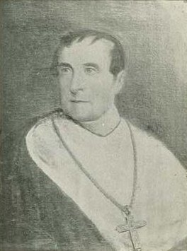 Thomas Weld, Cardinal (1773–1837), Archives de MontrÃ©al